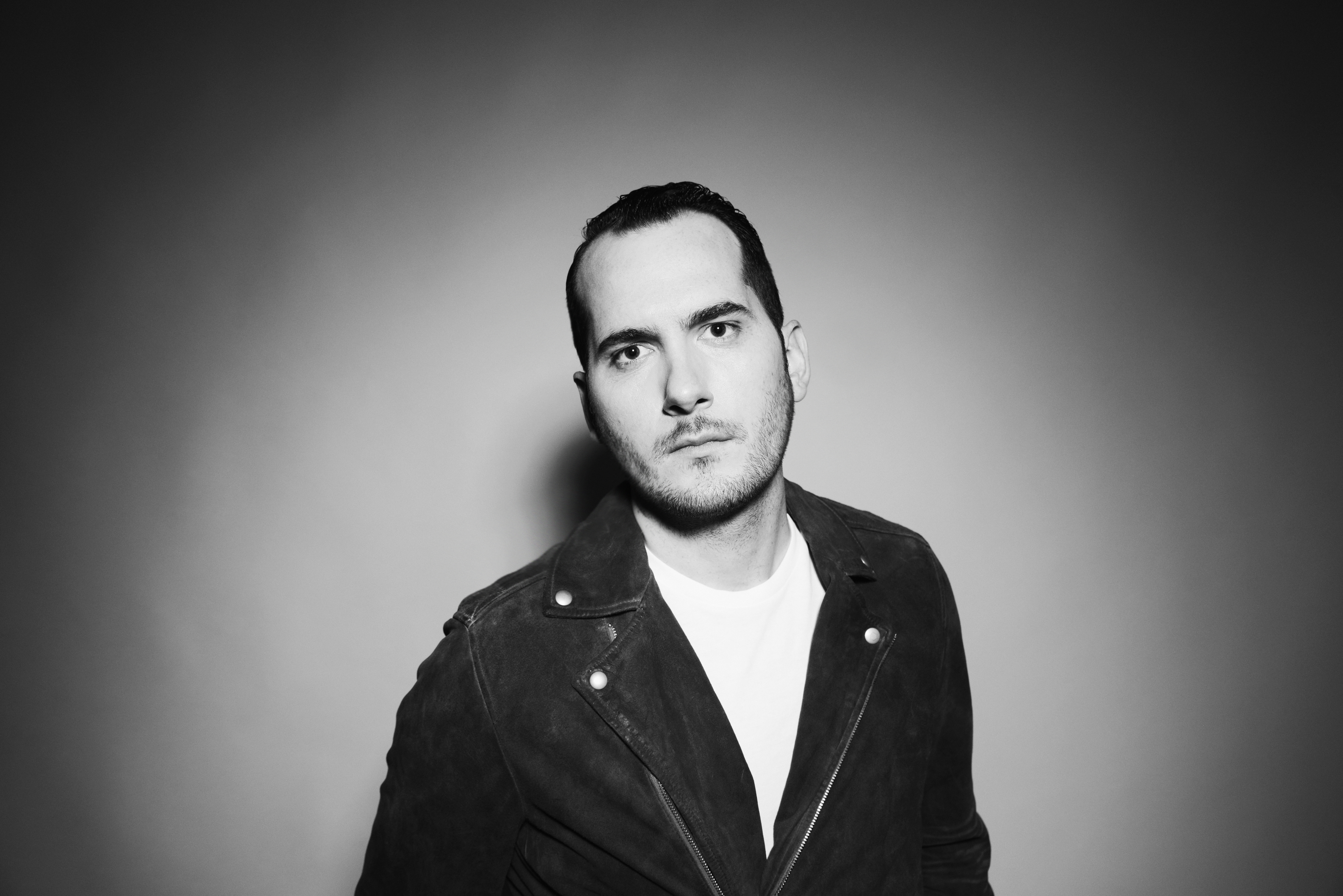 Press photo of American musician Andrew Bayer in 2018, credit to Shervin Lainez.